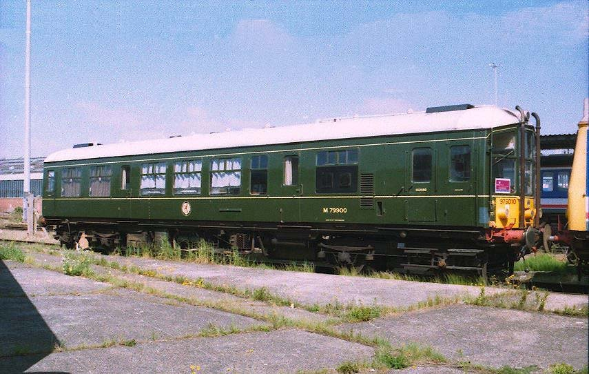 Iris 1 at Bletchley in July 1997